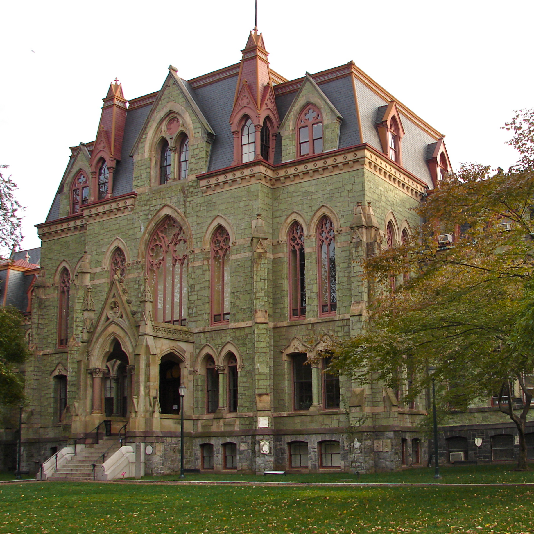 College Hall, University of Pennsylvania, on the NRHP since February 14, 1978. Bounded by Walnut, Spruce, 34th, and 36th Streets in the center of the U Penn Campus, in University City, Pennsylvania. Made from green stone. Thomas W. Richards, architect (1870–72).